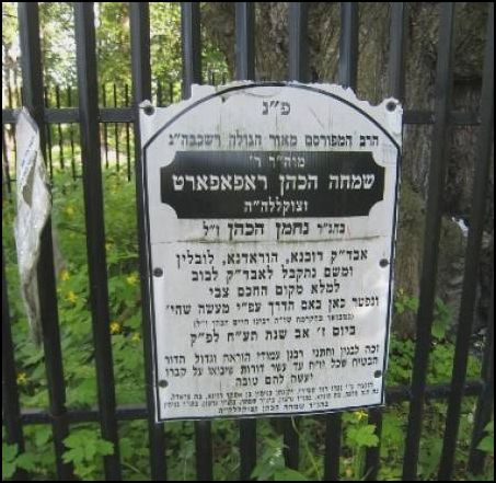 Grave of Simcha Rappaport